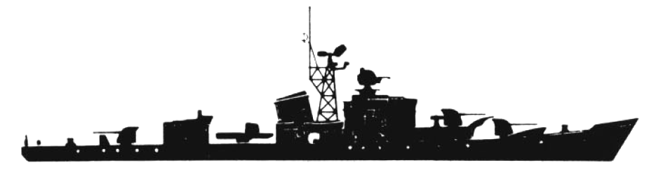 Profile of a Soviet Riga-class (Project 50, Gornostay) frigate.